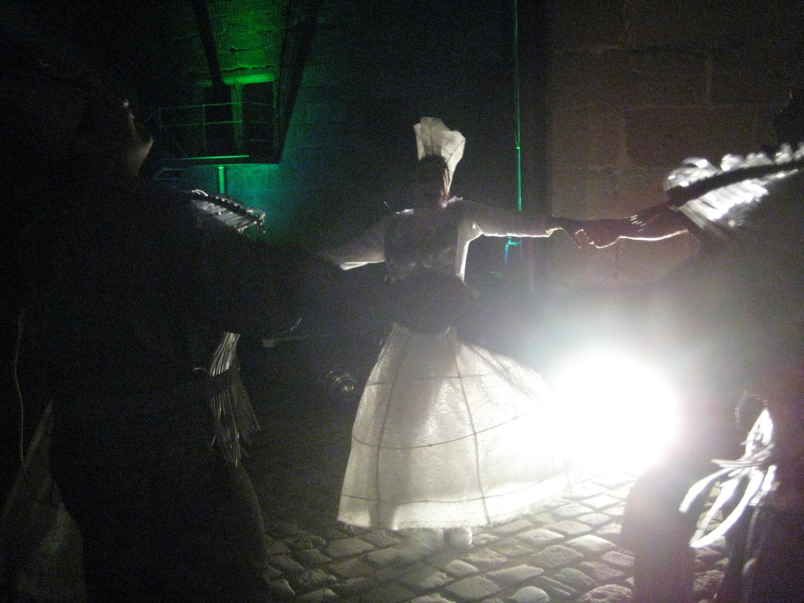 Production One charming night after The Fairy Queen of Henry Purchell with Astrid Kessler as Fairy, Alexander Herzog as Demetrius, Performance at the Hohenzollern-Castle in Cadolzburg in September 2007